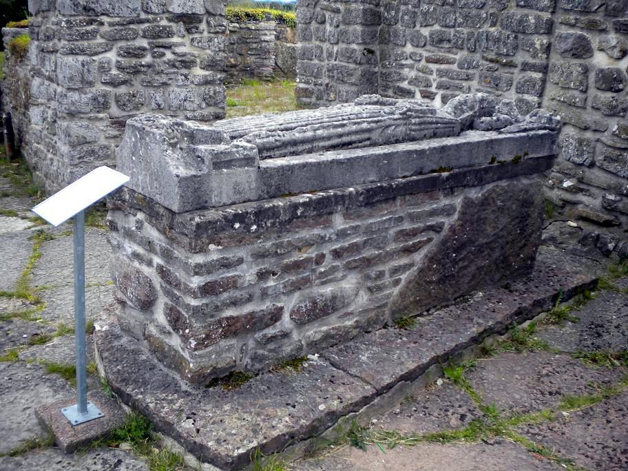 Grave of Queen Catherine at Gudhem Abbey ruinsPlace: Falköping, Sweden